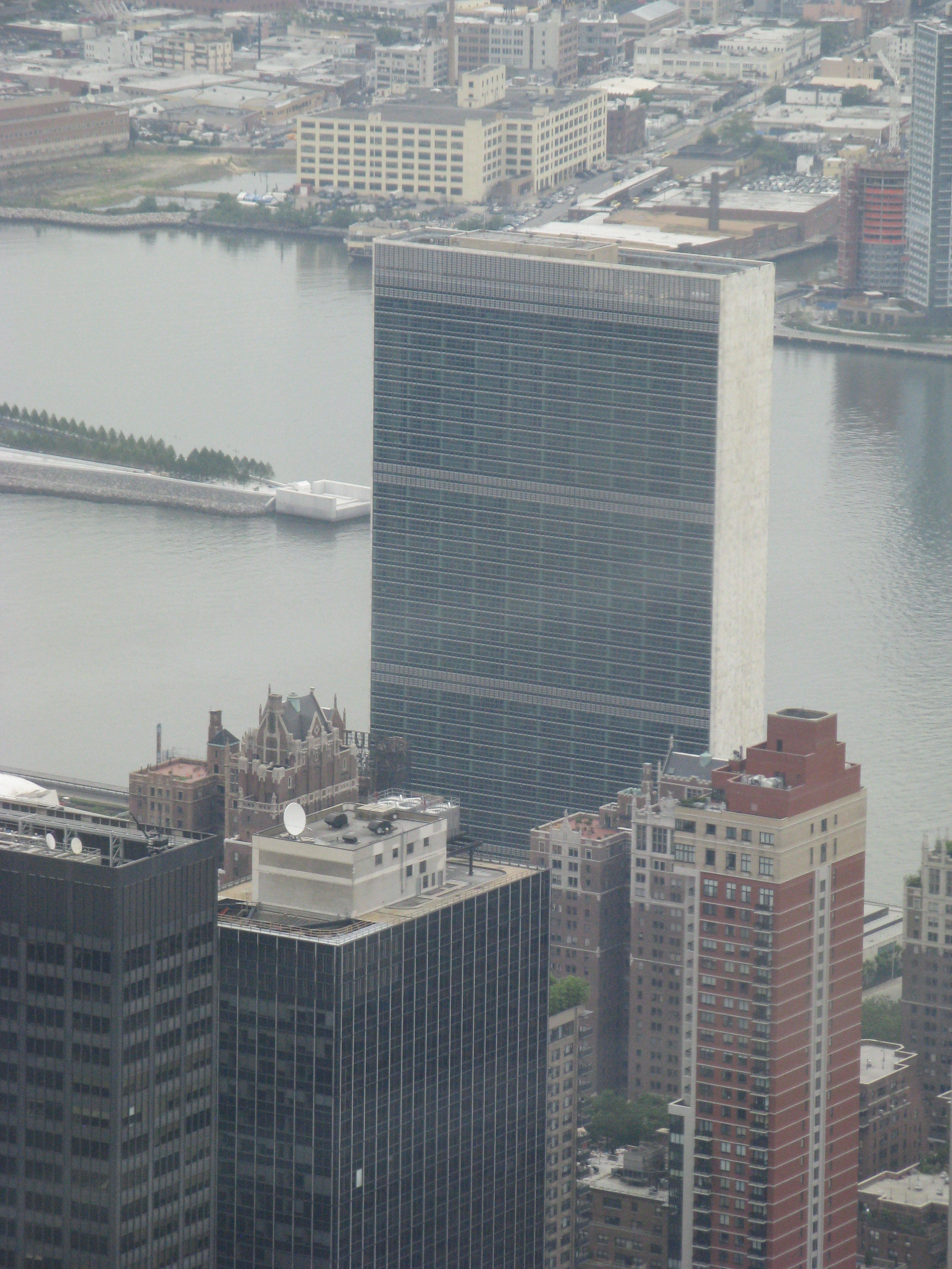 United Nations Secretariat building.